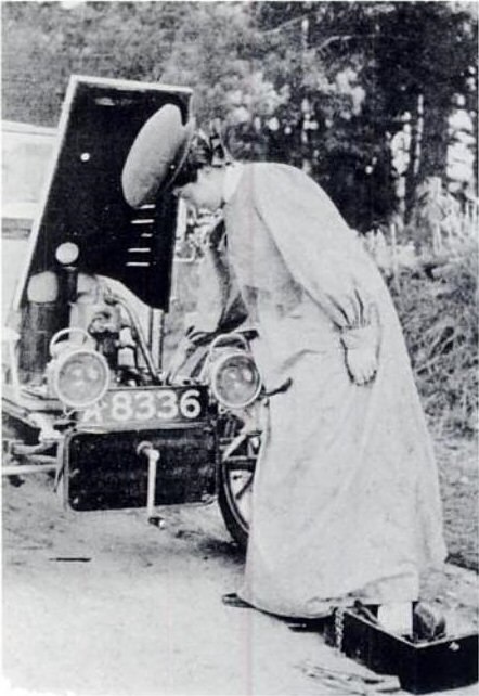 Dorothy Levitt demonstrates how to prime the carburettor. Photo by Horace Nichols, published in 'The Graphic' circa 1906-7, reprinted in 'The Woman and The Car', 1907/9